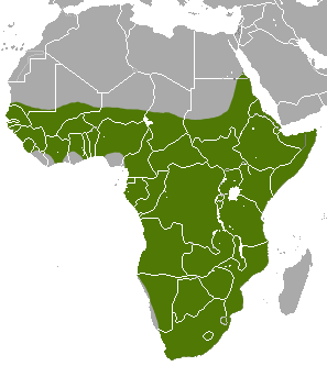 Aardvark (Orycteropus afer) range, along with national borders